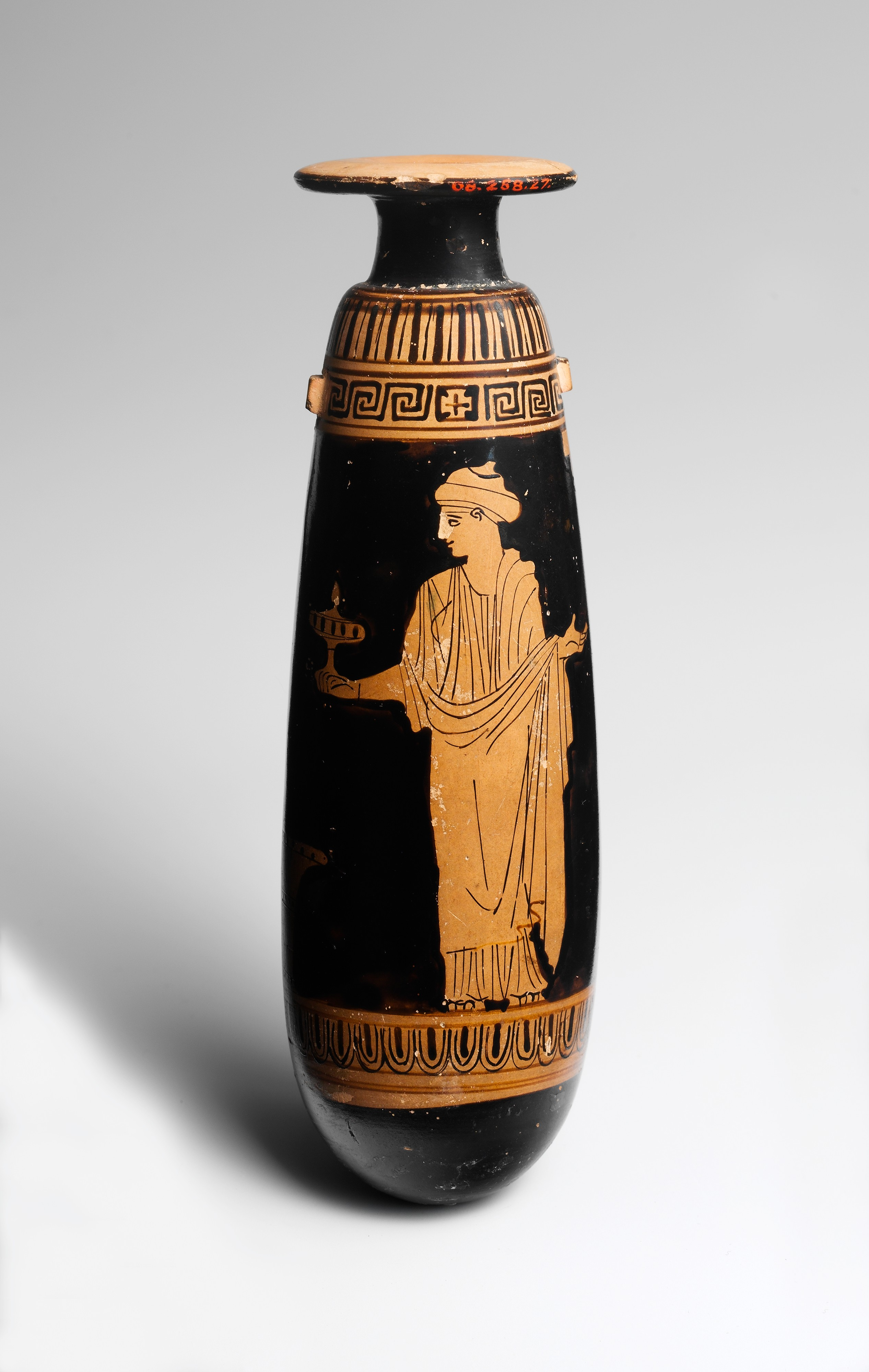 Greek, Attic; Alabastron; Vases; Obverse, woman with mirror; Reverse, woman with plemochoe (perfume vase)